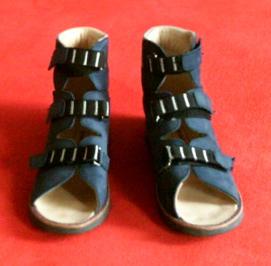 Shoes for treatment of club feet or pigeon toe conditions